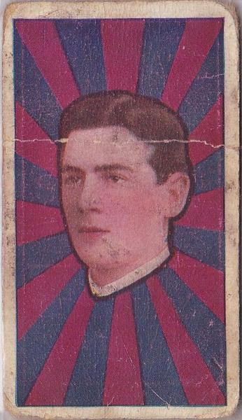 Cigarette card of Fred Kirkwood from the 1911 Sniders & Abrahams series.